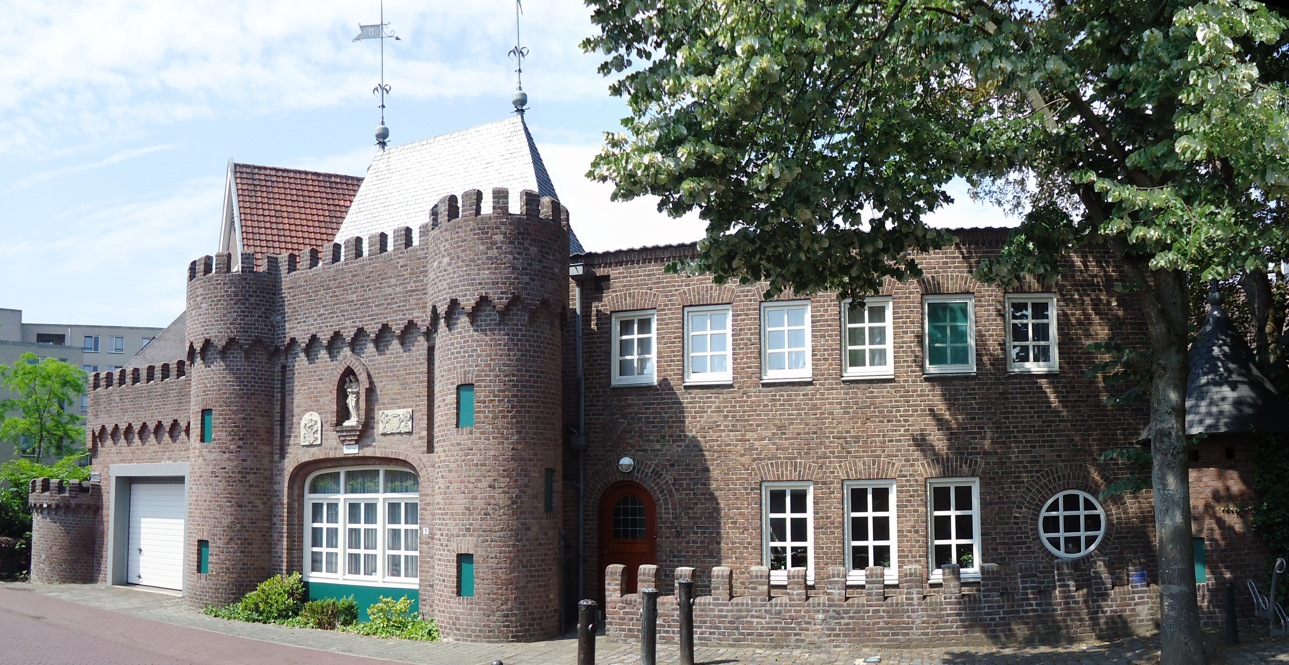 Impressions of Sittard